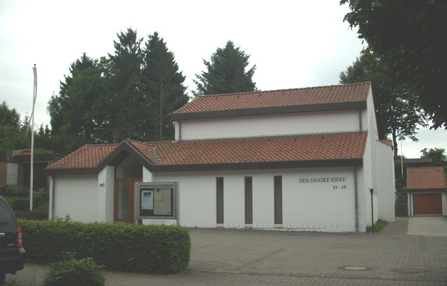 The Danish Church in Eckernförde, Southern Schleswig